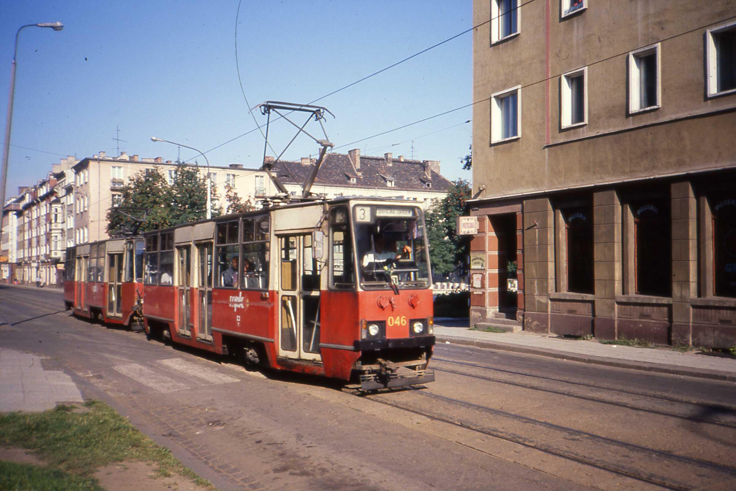 Tram no. 046 passes a Pizzeria in an obviously bomb damaged and rebuilt block following the second world war. The grilles to the cellars are clearly visible. Taken on Fuji slide film, with an Olympus XA camera. The MPK undertaking is now known as Tramwaje Elbląskie, sp. z o.o since 1993. 046 is a 1986 805Na tram, which passed to MPK from WPK in 1989 and to TE Elblag in 1993.